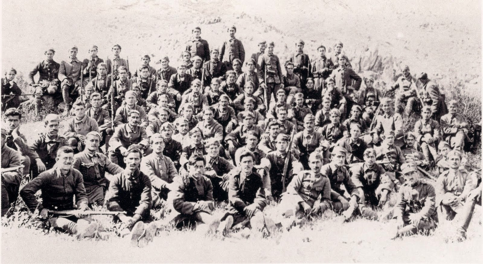 Greek soldiers of evzones regiment 5/42, Asia Minor, circa 1921Türkçe: Yunan 5/42 evzon alayının askerleri, Anadolu, takriben 1921